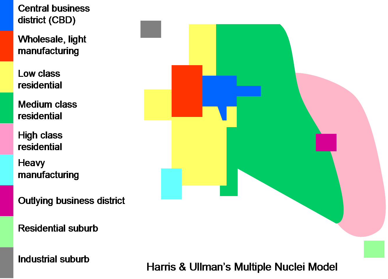 S Knights, my diagram